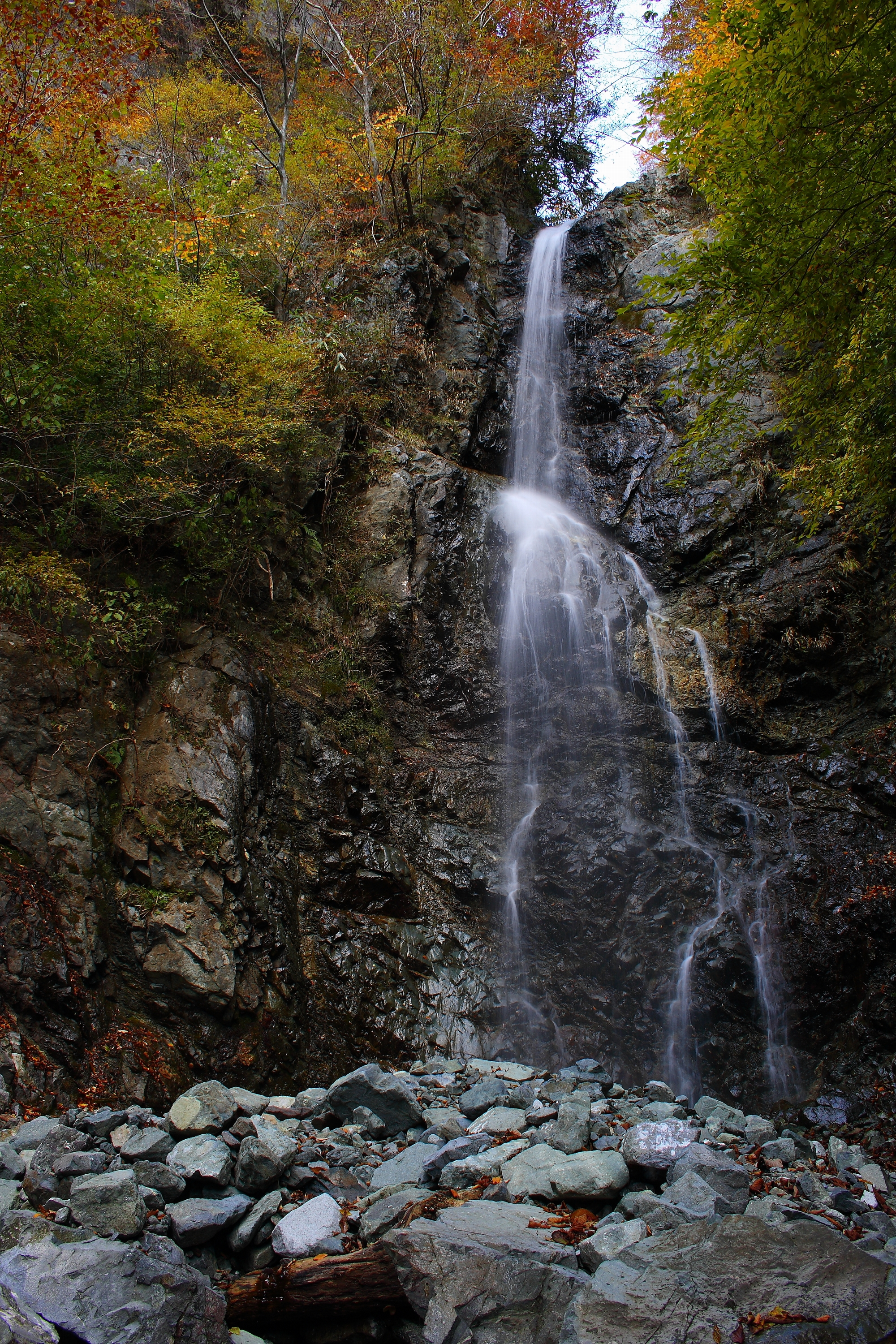 Mizuhi Falls ,Tanzawa ,Kanagawa ,Japan.